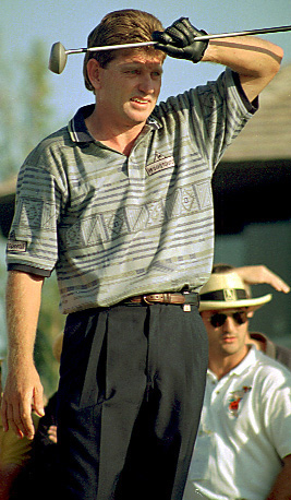 Nick Price - professional golfer - photographed by Mike F. Campbell at the Bell Canadian Open in 1994, Glen Abbey, Oakville, Ontario, Canada.